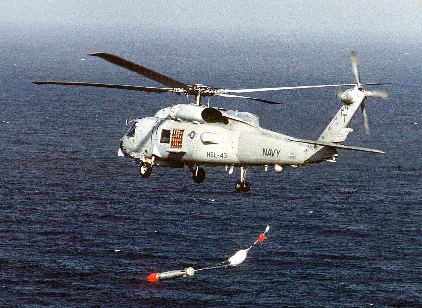 An air-to-air left rear view of a Light Helicopter Anti-submarine Squadron 43 (HSL-43) SH-60B Sea Hawk helicopter releasing a MARK 46 TORPEDO during anti-submarine warfare operations off the coast of Southern California.